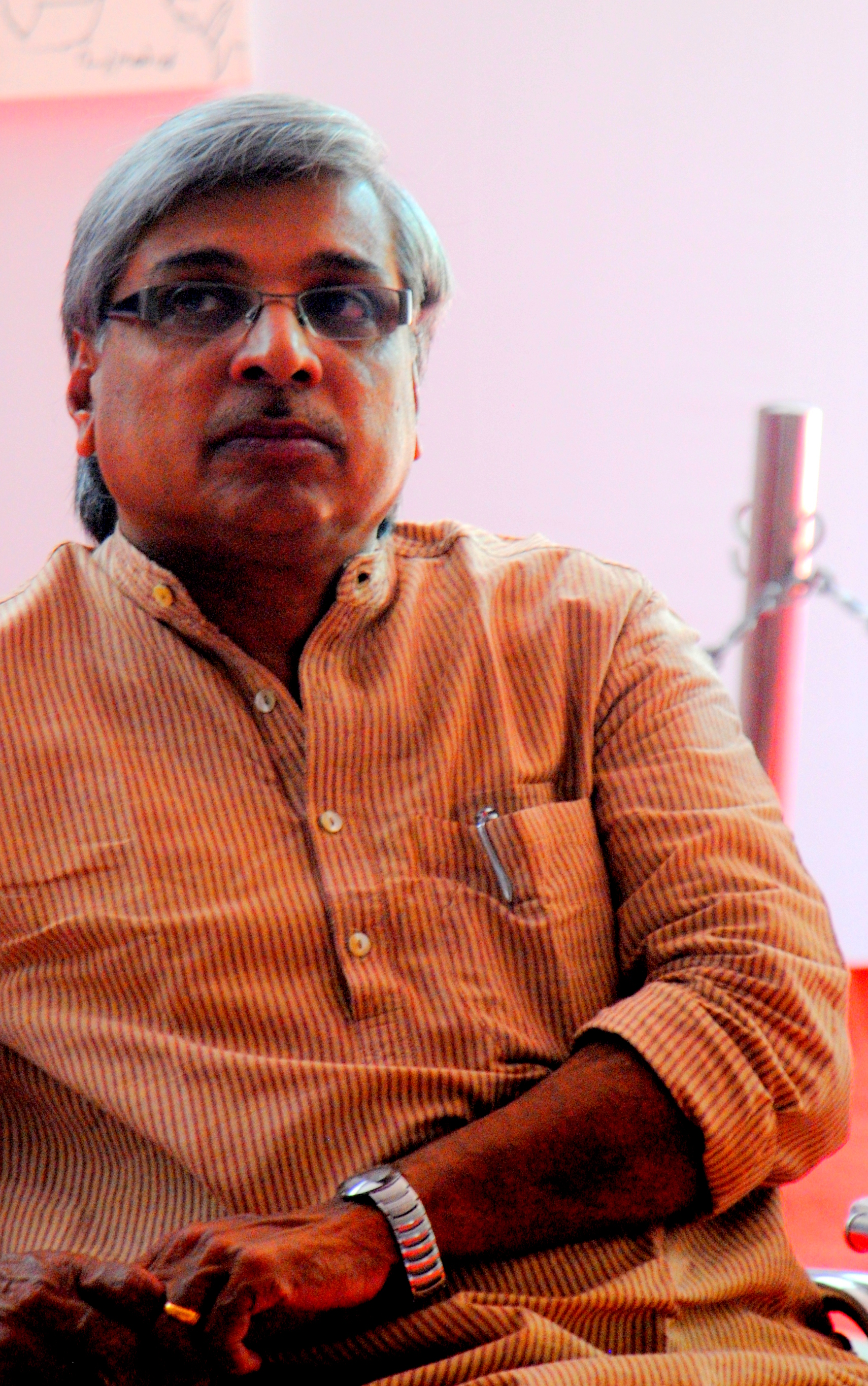 Kamal Director